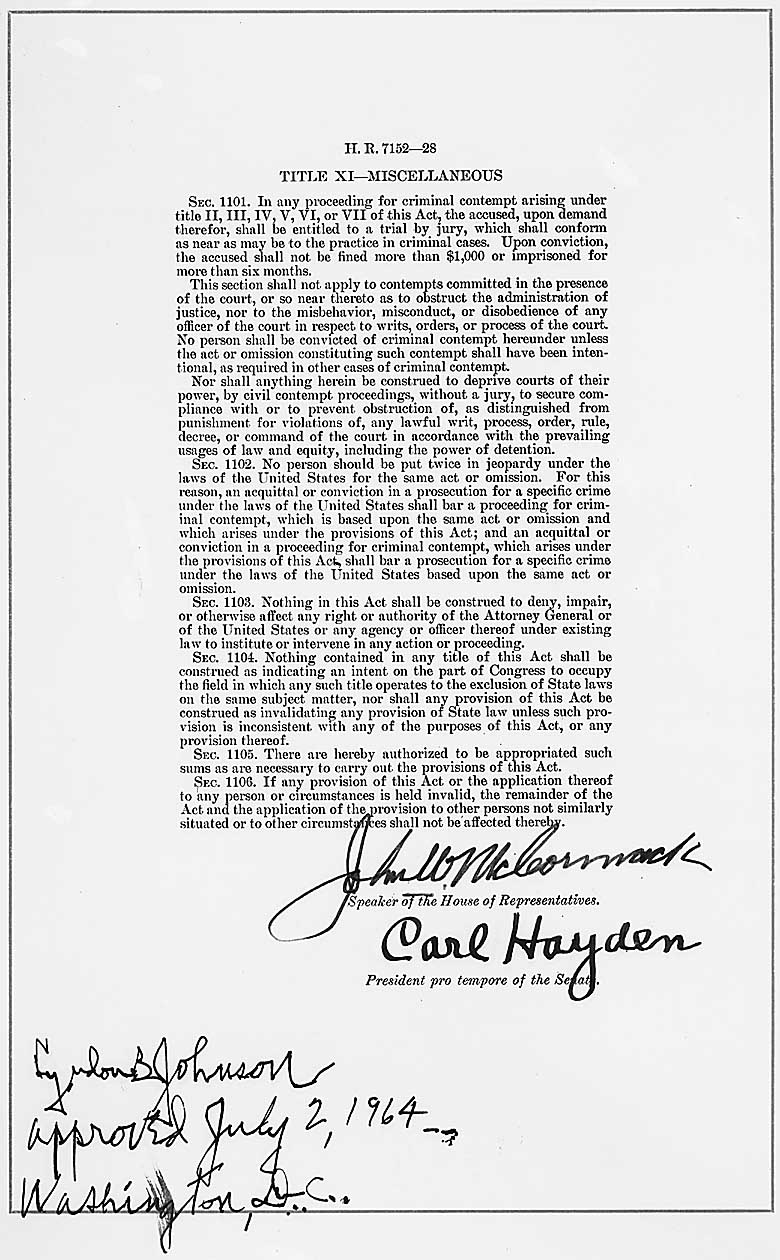 Civil Rights Act of 1964, page 8.Signed into law by President Lyndon B. Johnson